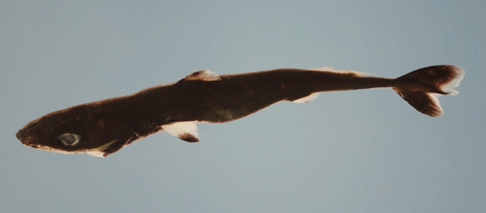 Spined pygmy shark (Squaliolus laticaudus) from the Gulf of Mexico